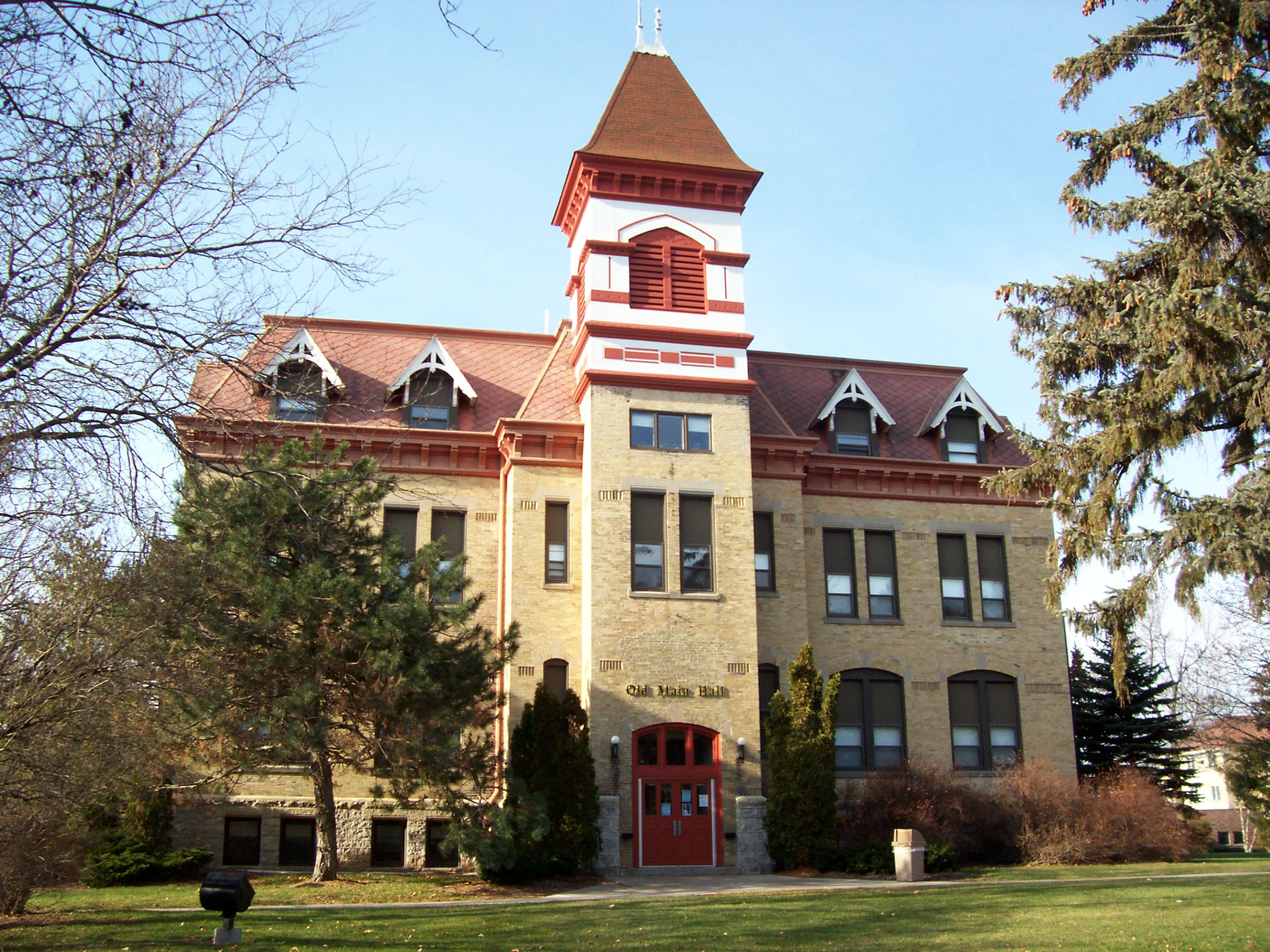 Old Main Hall at Lakeland College in rural Sheboygan County, Wisconsin, USA.